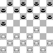 Tabia opening Otkazannaya Igra Kaulena